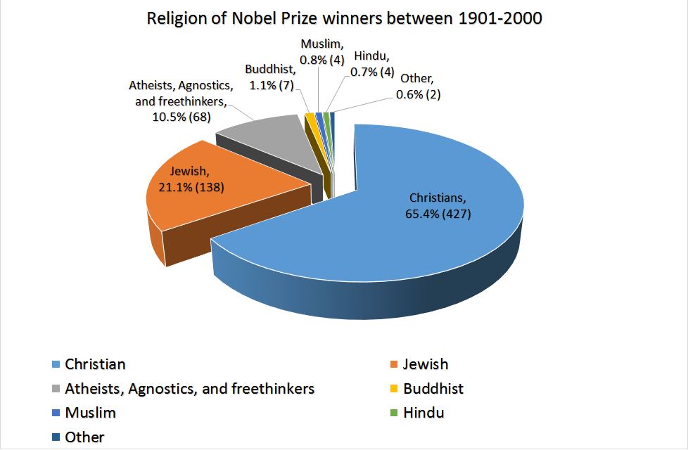 Distribution of Nobel Prizes by religion between 1901-2000, the data tooks from Baruch A. Shalev, 100 Years of Nobel Prizes (2003), Atlantic Publishers & Distributors, p.59 and p.57: between 1901 and 2000 reveals that 654 Laureates belong to 28 different religion. Most 65.4% have identified Christianity in its various forms as their religious preference. Overall, Christians have won a total of 78.3% of all the Nobel Prizes in Peace, 72.5% in Chemistry, 65.3% in Physics, 62% in Medicine, 54% in Economics and 49.5% of all Literature awards. While separating Roman Catholic from Protestants among Christians proved difficult in some cases, available information suggests that more Protestants were involved in the scientific categories and more Catholics were involved in the Literature and Peace categories. Atheists, agnostics, and freethinkers comprise 10.5% of total Nobel Prize winners; but in the category of Literature, these preferences rise sharply to about 35%. A striking fact involving religion is the high number of Laureates of the Jewish faith - over 20% of total Nobel Prizes (138); including: 17% in Chemistry, 26% in Medicine and Physics, 40% in Economics and 11% in Peace and Literature each. The numbers are especially startling in light of the fact that only some 14 million people (0.02% of the world's population) are Jewish. By contrast, only 5 Nobel Laureates have been of the Muslim faith-0.8% of total number of Nobel prizes awarded - from a population base of about 1.2 billion (20% of the world‘s population).